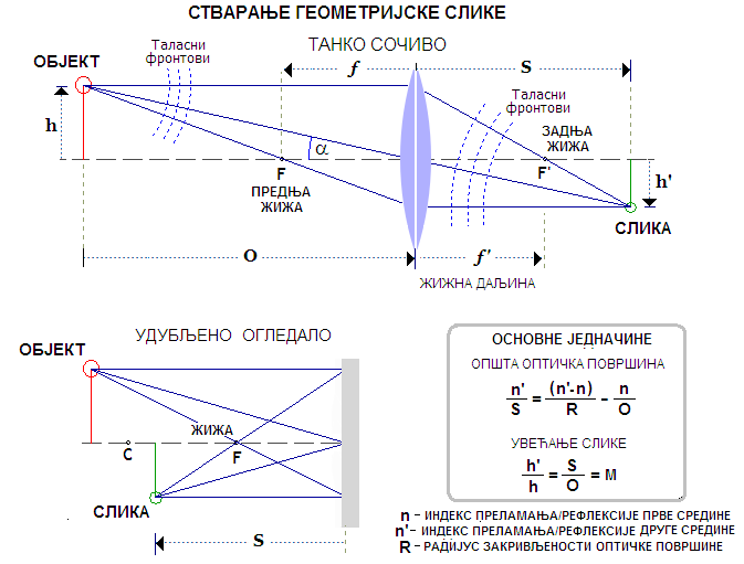 Стварање геометријске оптичке слике и њена основна својства